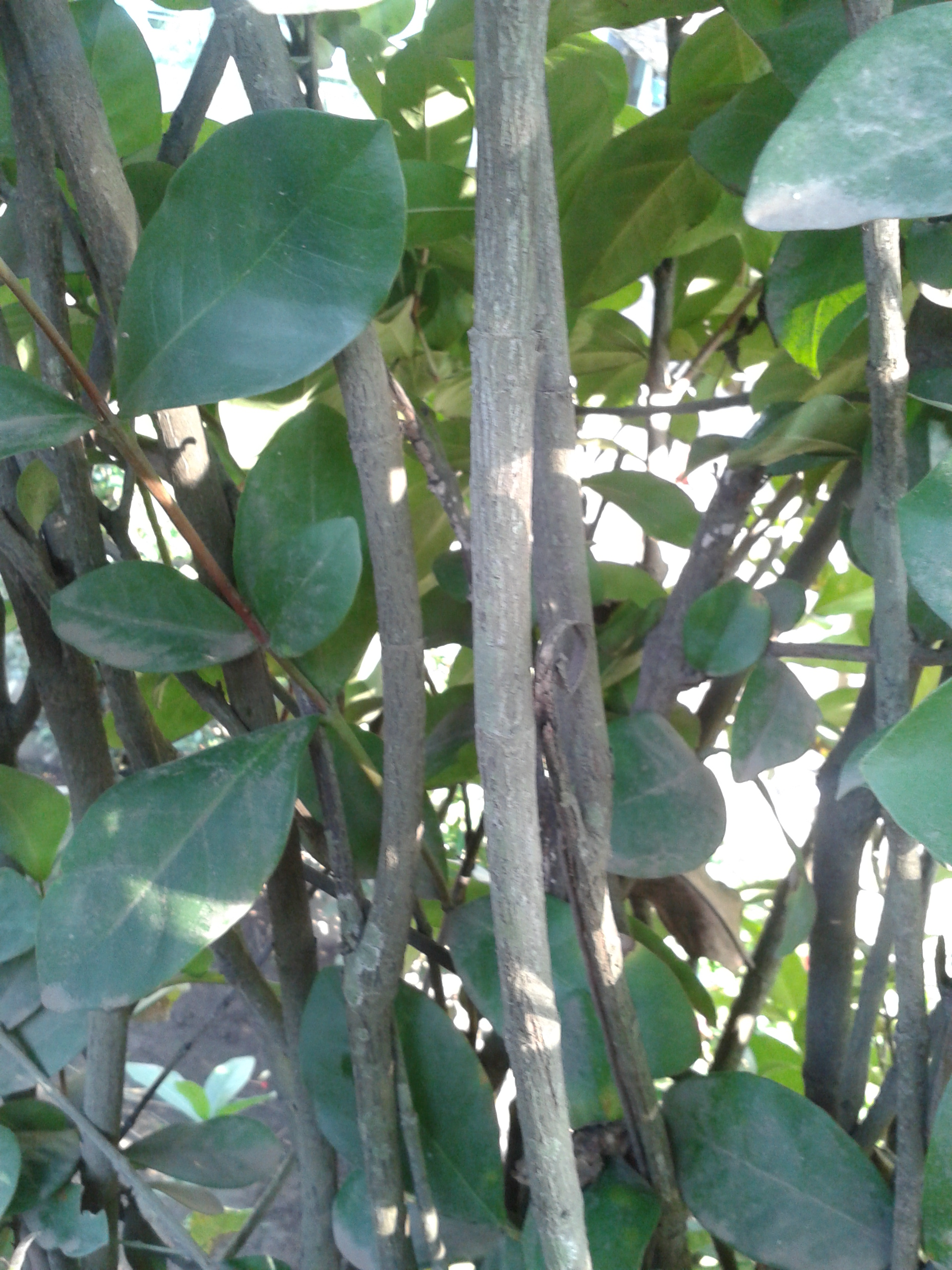 Flower of Ixora javanica